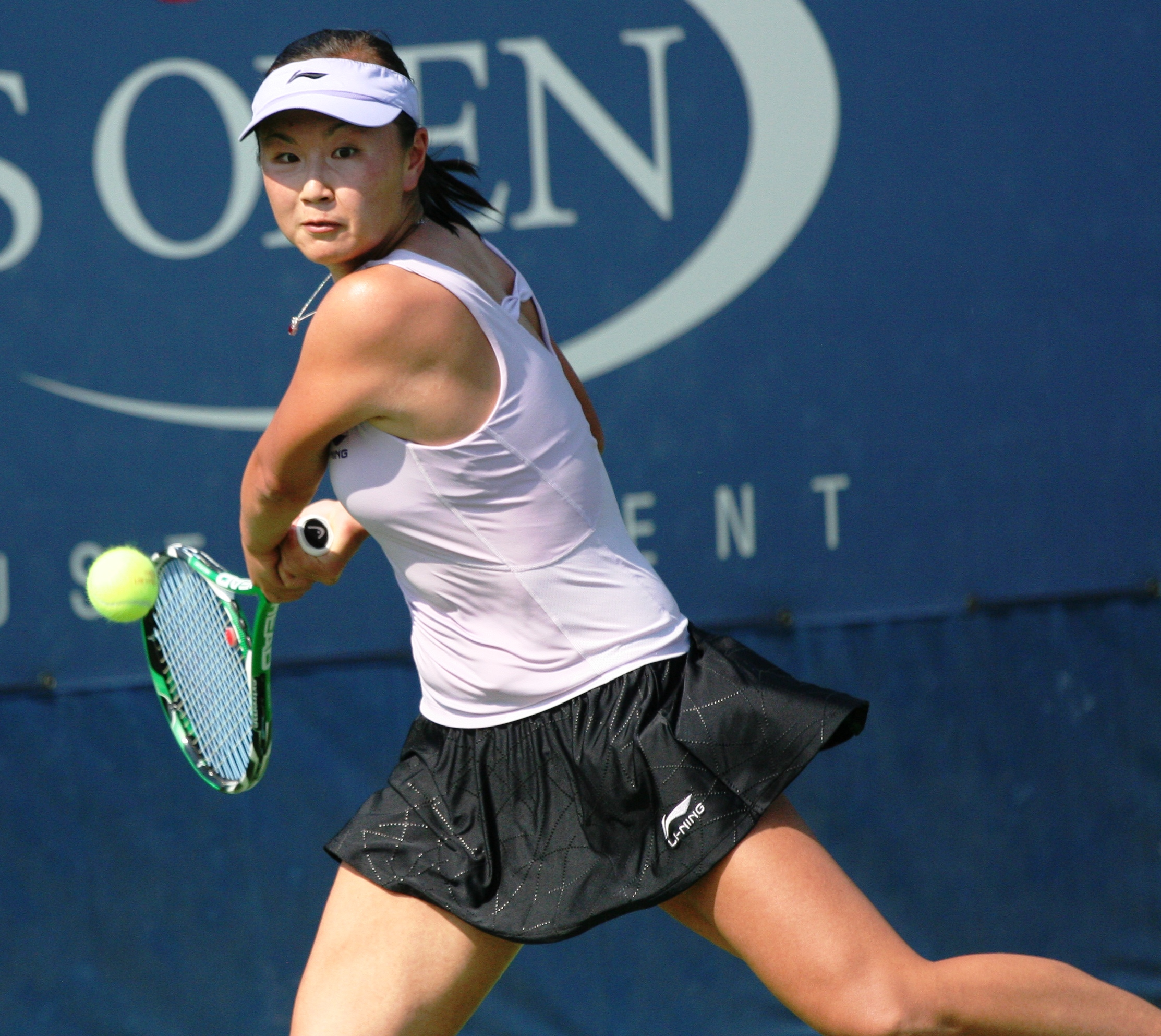 U.S. Open Tuesday, Aug. 31, 2010